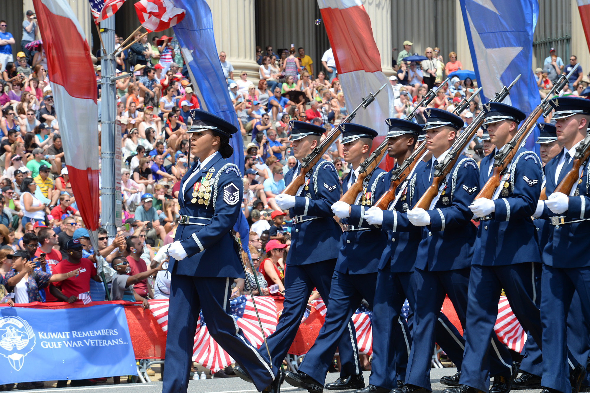 The U.S. Air Force Honor Guard marches during the National Memorial Day Parade in Washington, D.C., May 25, 2015. The National Memorial Day Parade was first launched in 2005 by the American Veterans Center. (U.S. Air Force photo by Scott M. Ash/Released)